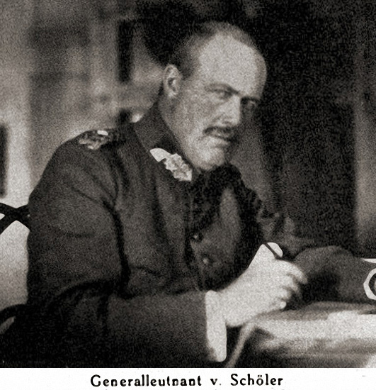 prussain lieutenant general Roderich von Schoeler